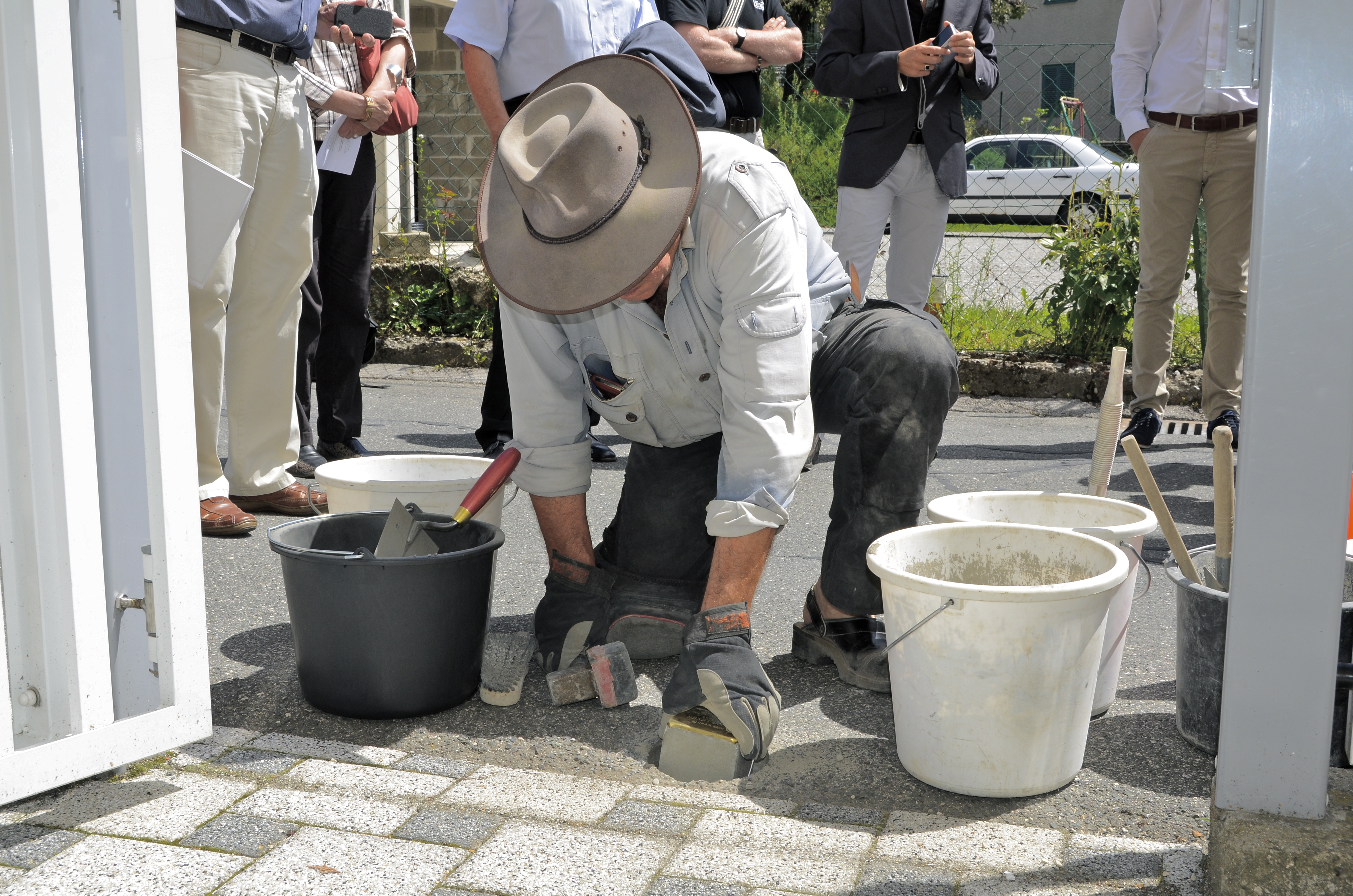 Stumble stone for the memory of Georg Lexer on Bahnweg #21, city of Klagenfurt, Carinthia / Austria / EU